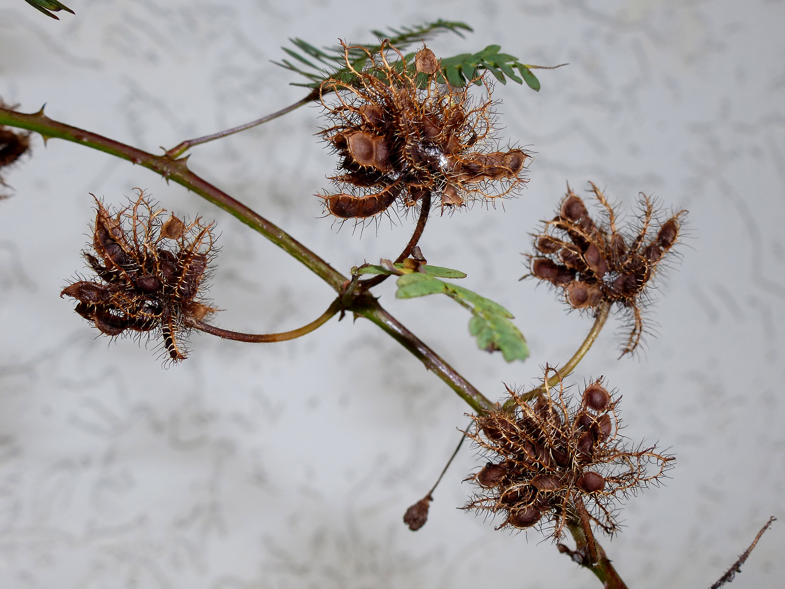 Mimosa pudica with mature seed pods on plant, growing at Cairns, Queensland, Australia. Feb 2014.